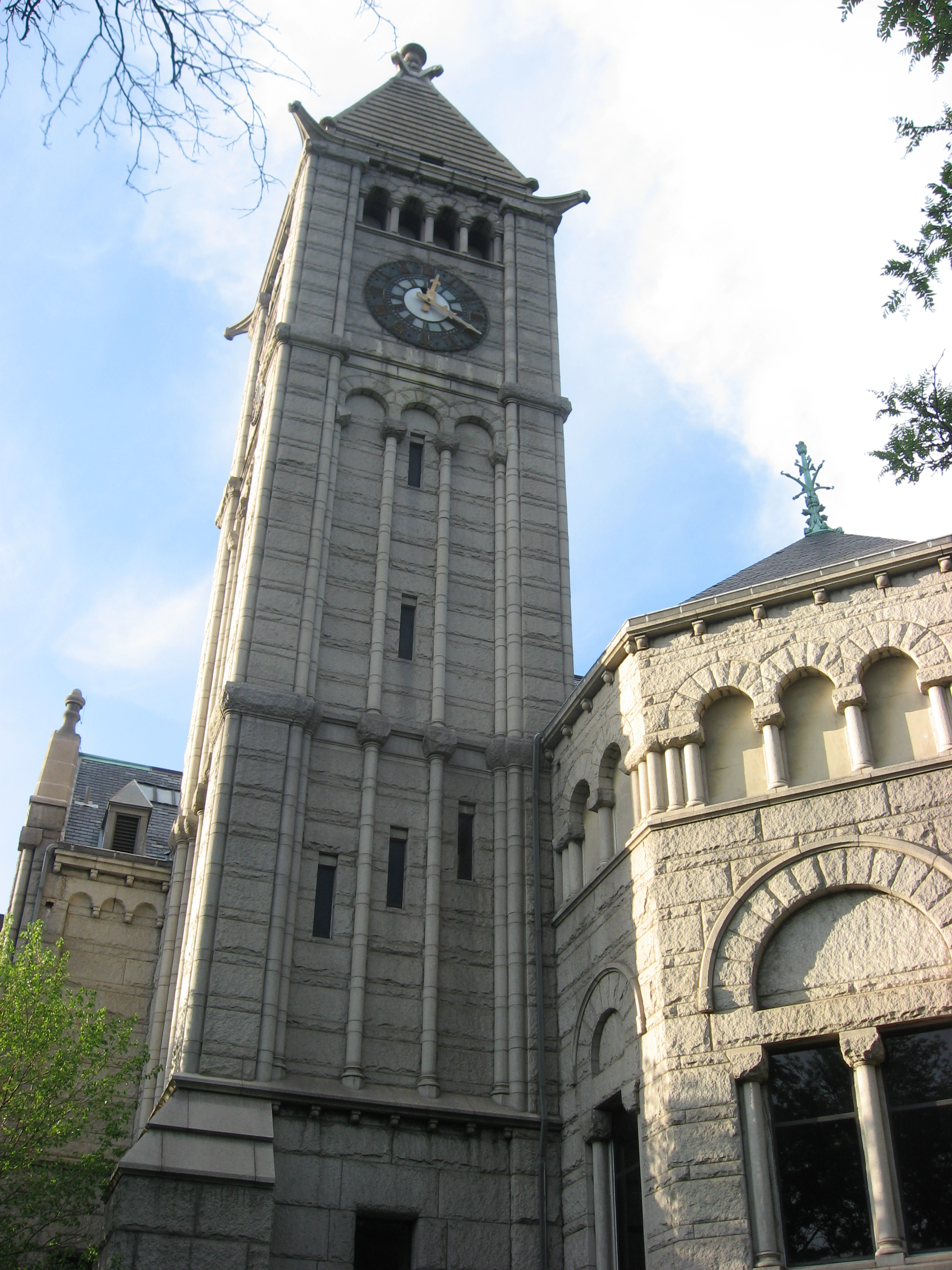 Clock tower at the Carnegie Free Library of Allegheny, located in Allegheny Center in central Pittsburgh, Pennsylvania, United States. Built in 1889, it is listed on the National Register of Historic Places.